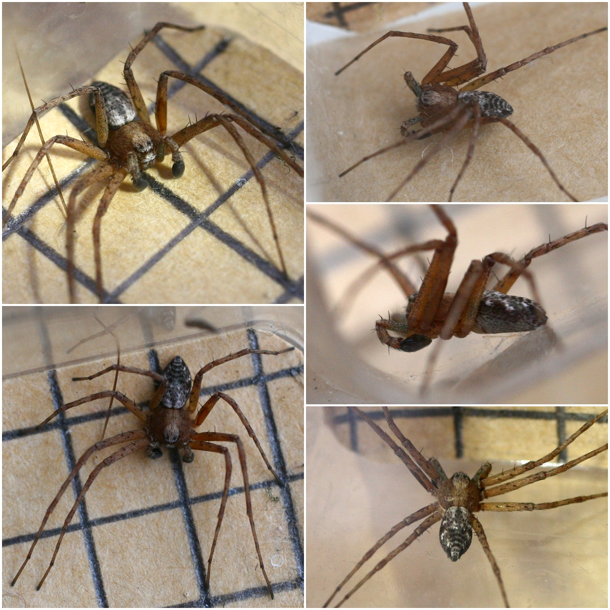 Philodromus cf. cespitum (Philodromidae).... though i've since found P. aureolus and didn't make a sketch of this one's palps, so can't be sure of the ( Id based on palps. Beaten from low tree branches at edge of meadow. Bricket Wood Common, Hertfordshire, England, 14th May 2011. More Info... Species Summary from Spider Recording Scheme Map from NBN Gateway Pavouci CZ Jorgen Lissner - male and female